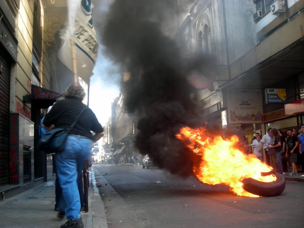 2010 strike in the newspaper La Capital of Rosario, Argentina, and LT3 and LT8 radios, over the firing of 26 workers of Multimedios La Capital